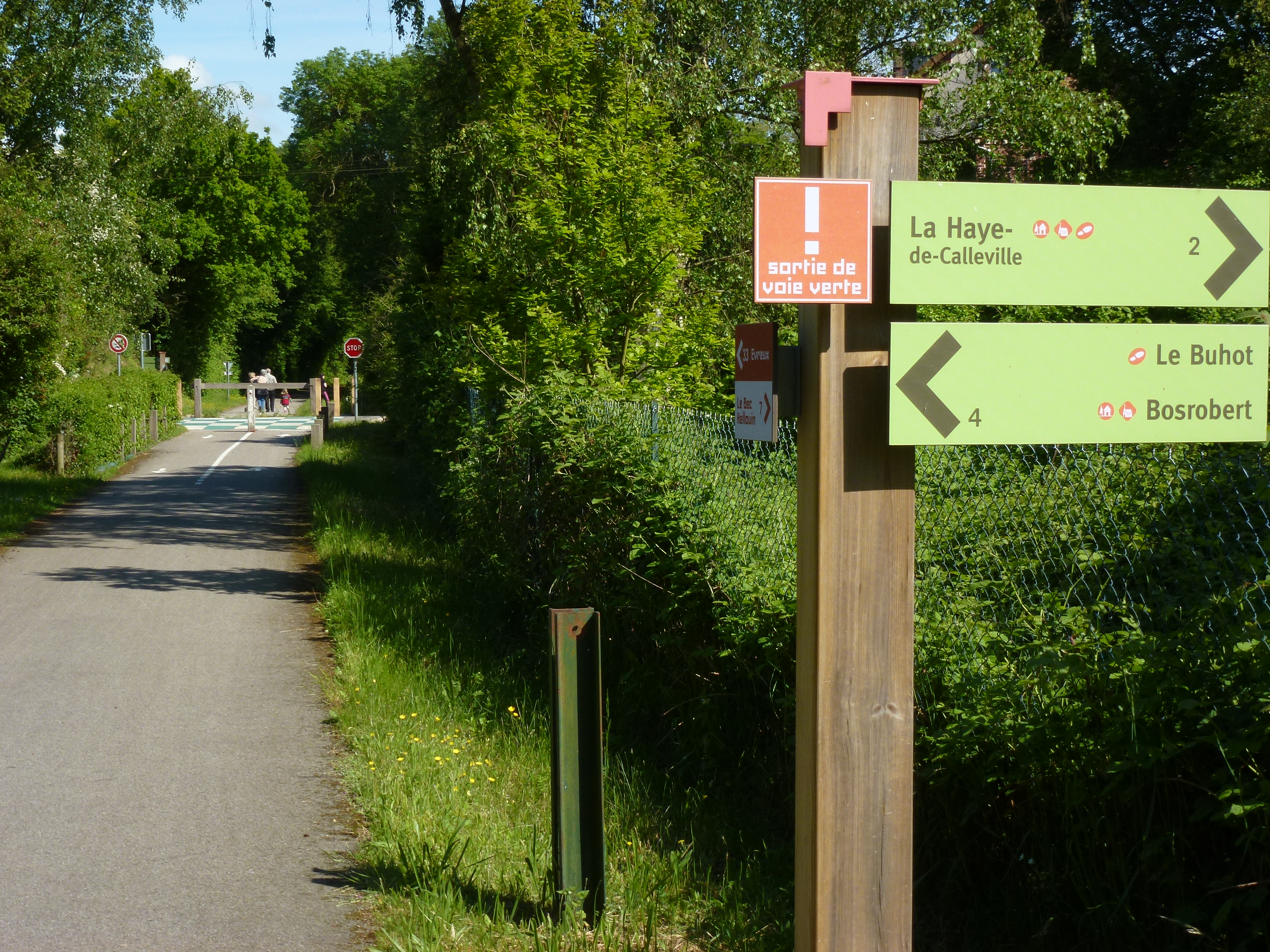 Voie verte Évreux-Vallée du Bec 10, Calleville